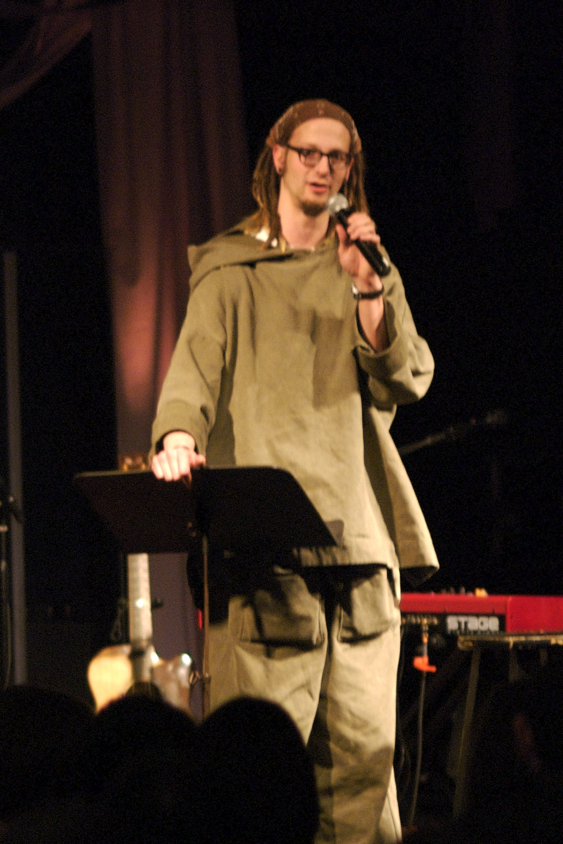 Shane Claiborne speaking in 2007